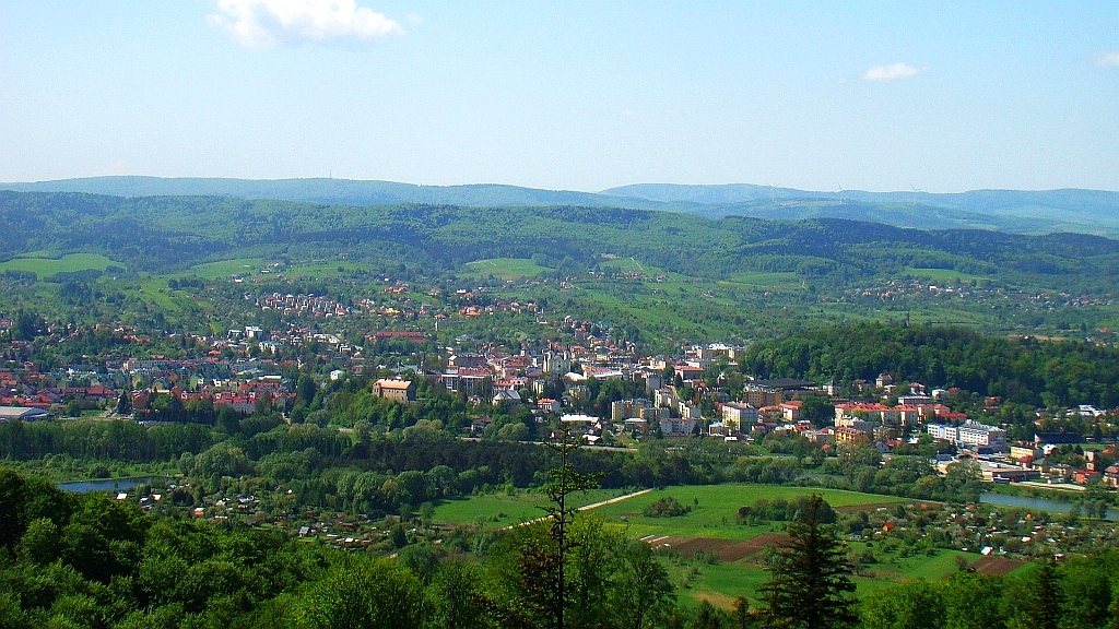 Der Blick vom Berg Biała-Góra nach Westen auf den San-Fluss und Sanok (2012)